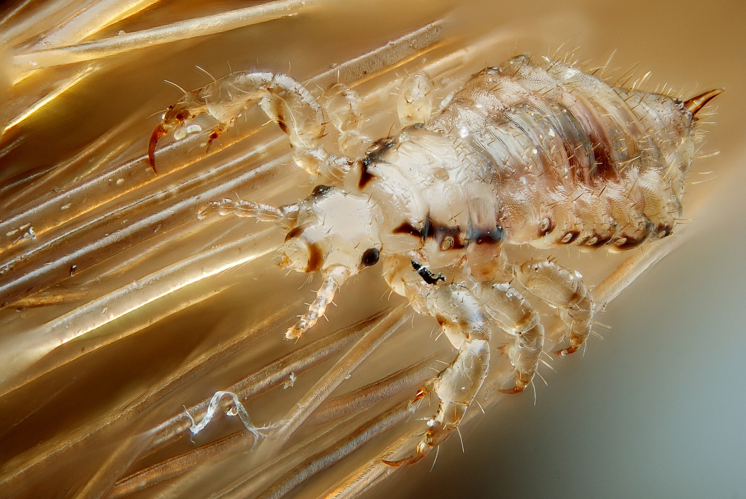 Male human head louse, Pediculus humanus capitis. keywords : louse lice Anoplura Phthiraptera pou poux kopflaus hoofdluis piojo parasite blood sucking ectoparasite Belgium Technical settings : - focus stack of 57 images - microscope objective (Nikon achromatic 10x 160/0.25) directly on the body (with adapter ~30 mm)